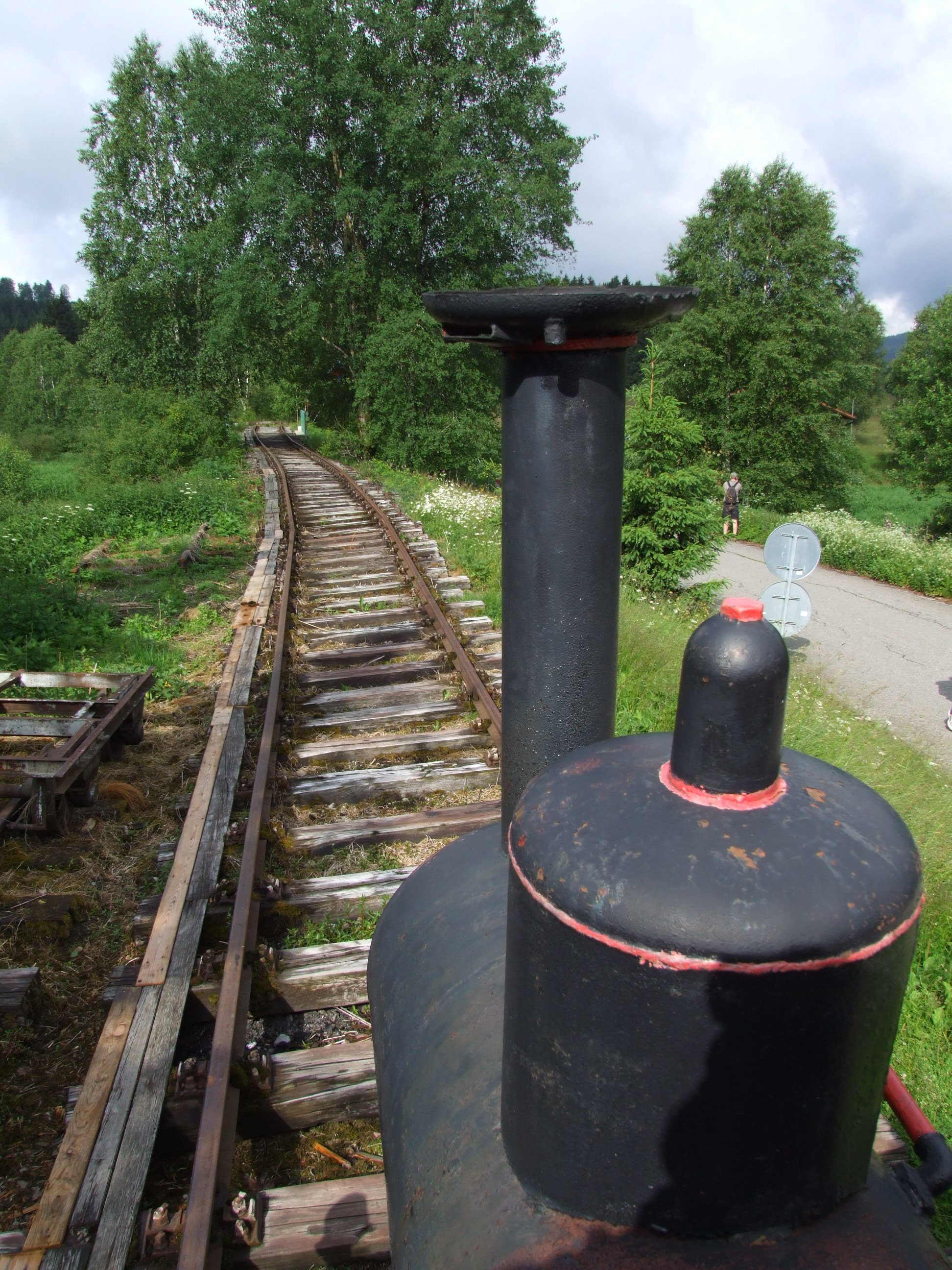 Nové Údolí, Czech Republic. Pošumavská jížní dráha - shortest international railway in the world (Czech Republic - Germany - 105 m)